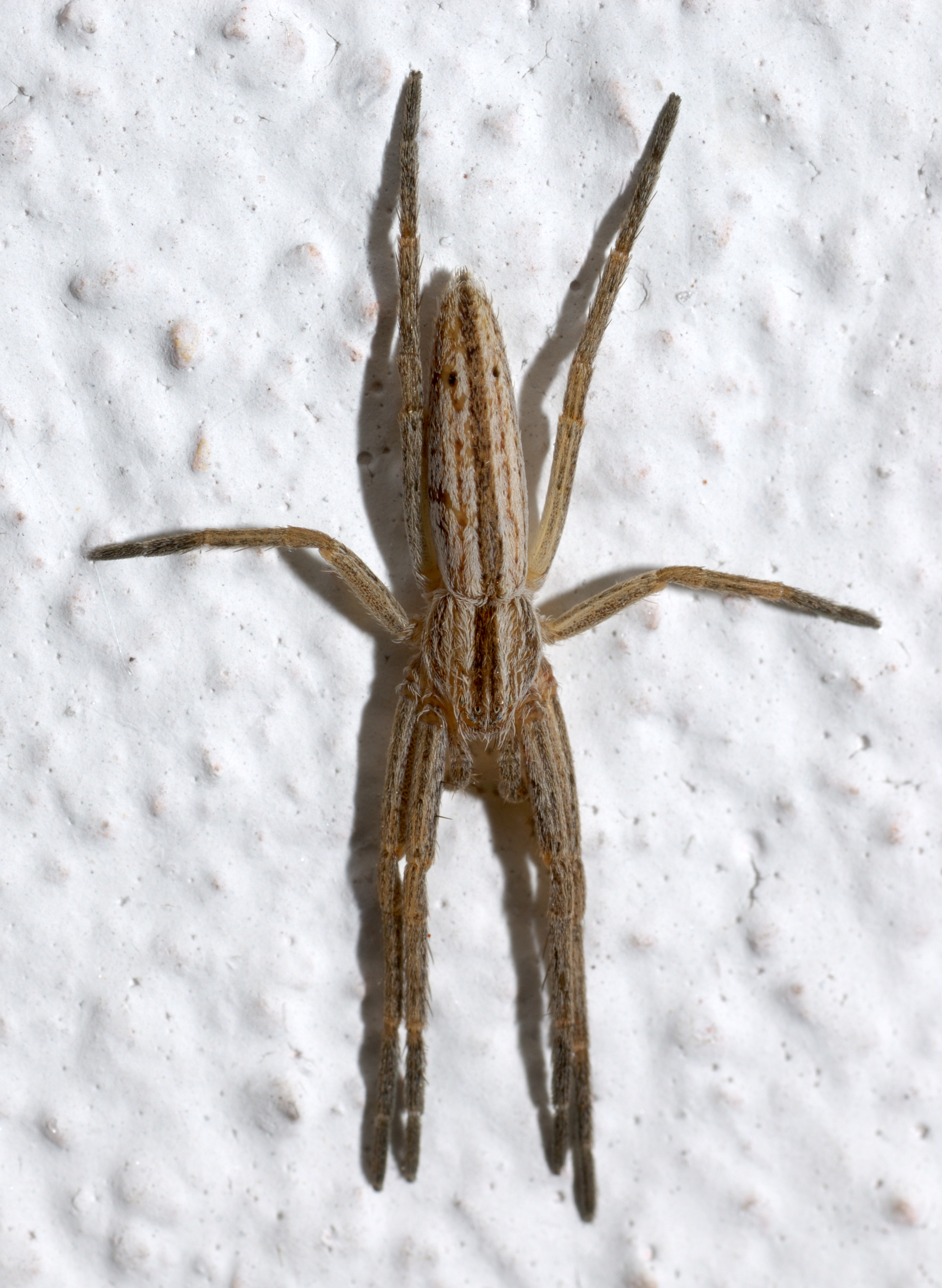 This image has shows a Philodromidae of the species Tibellus oblongus.